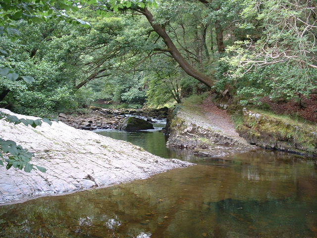 Nedd Fechan River. Looking North